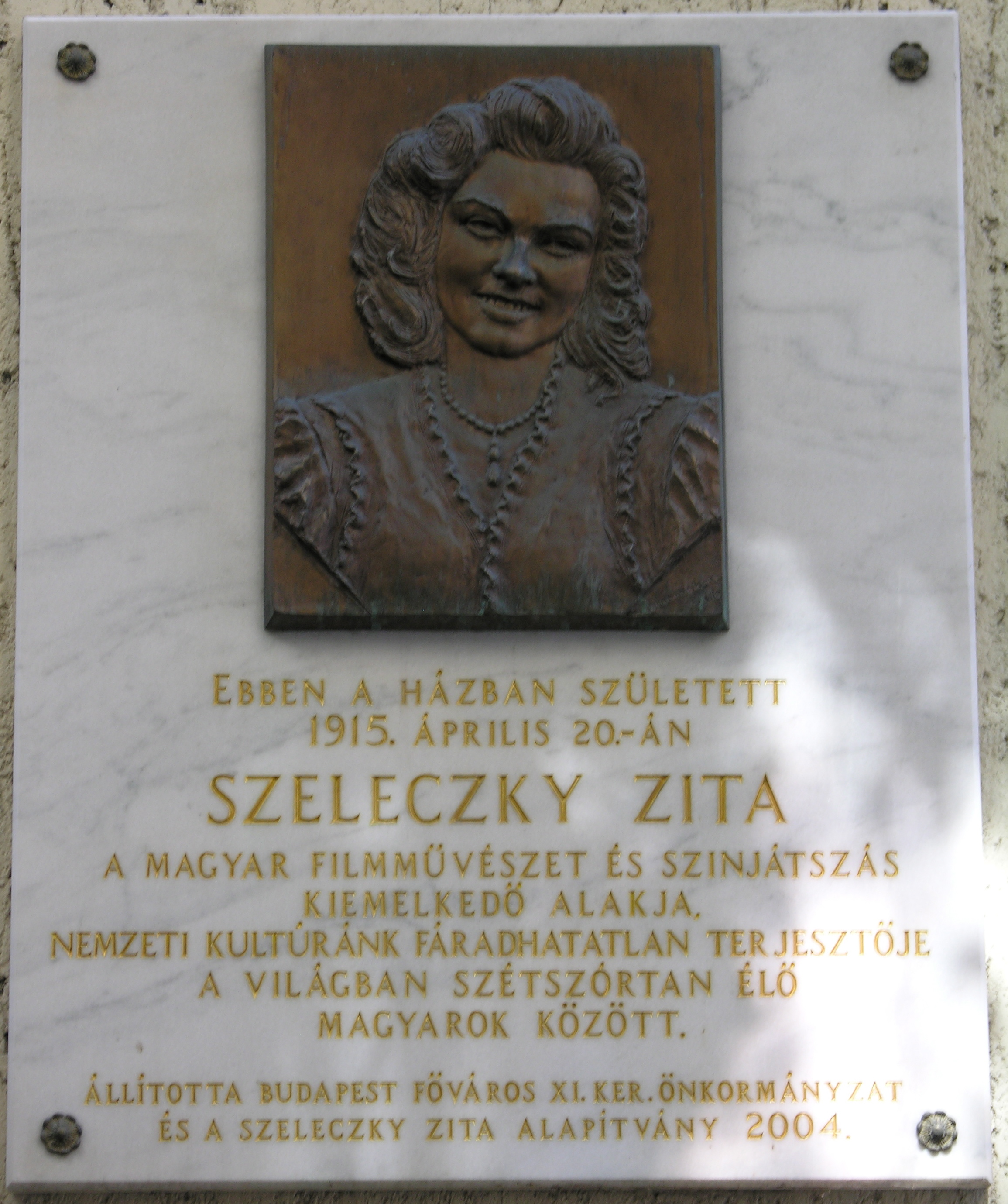 Commemorative plaque of Zita Szeleczky, Budapest District XI, Budafoki Street No 10/c